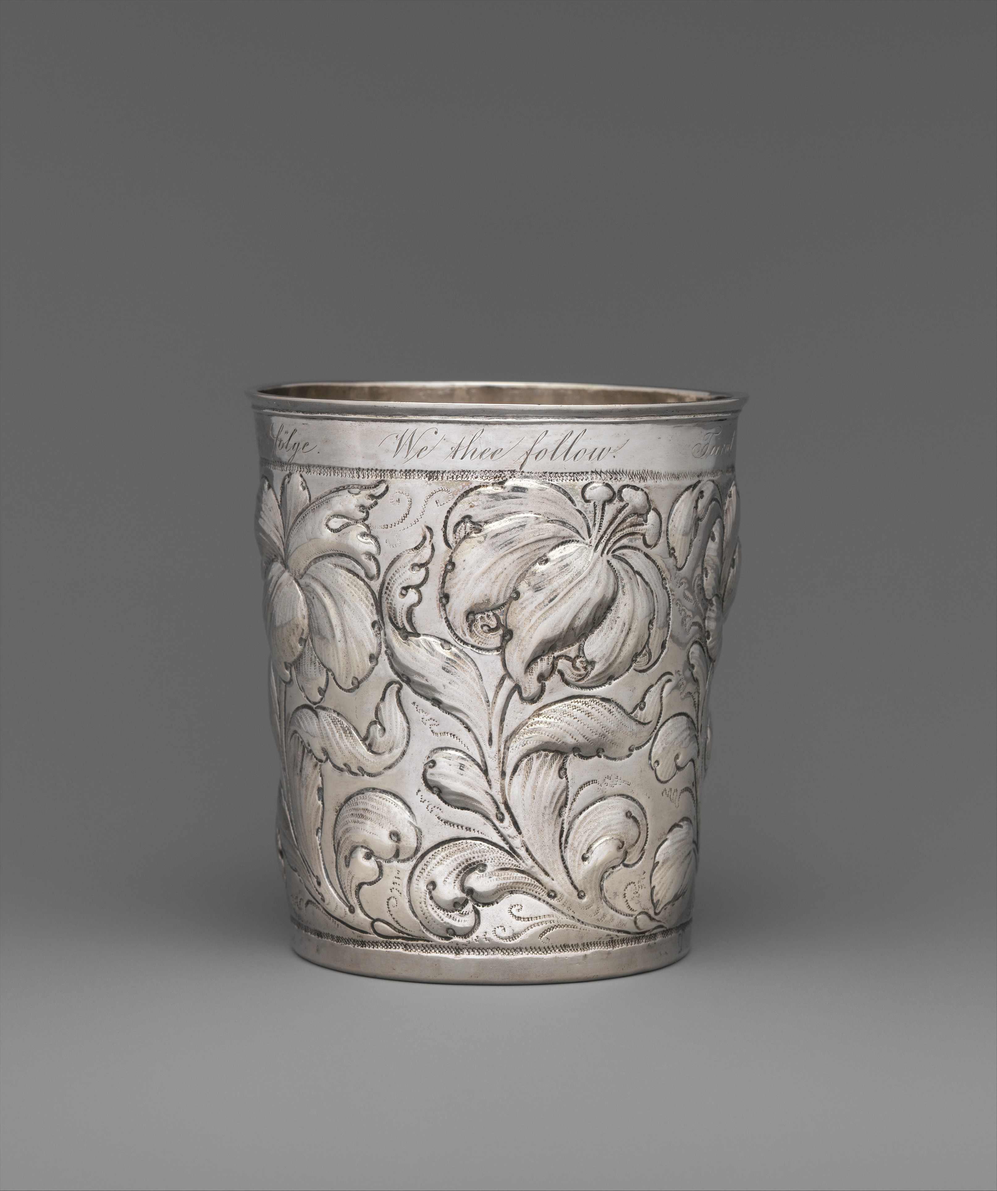 possibly Norwegian; Beaker; Metalwork-Silver